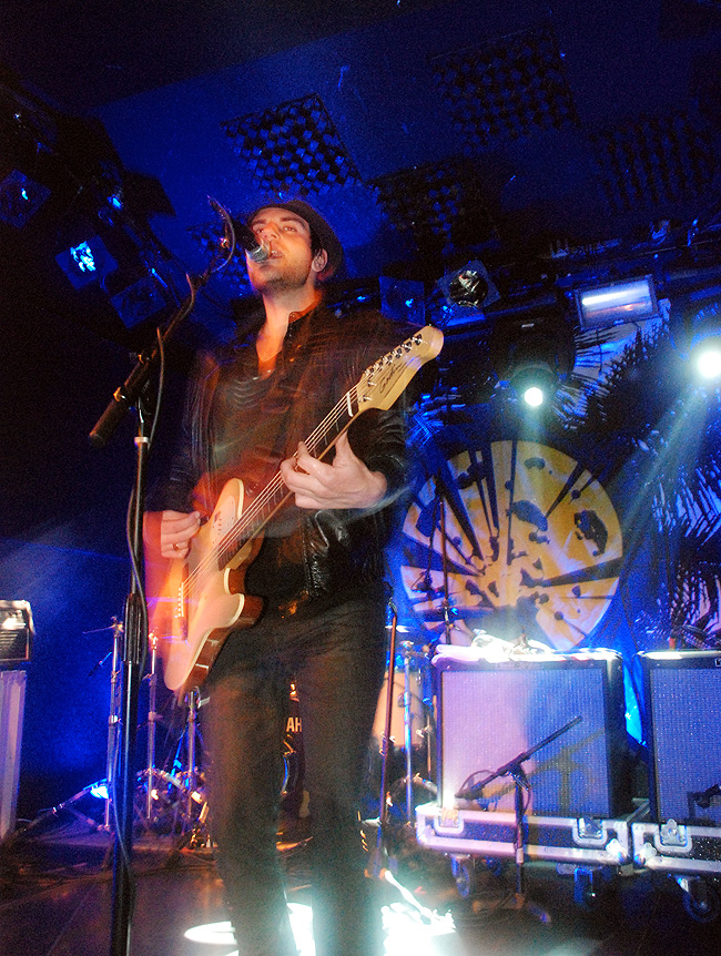 Jay Malinowski of Bedouin Soundclash at The Knitting Factory in New York City.